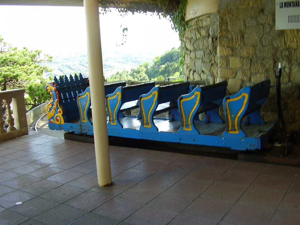 Leading car of one of the trains of the roller coaster Montana Suiza